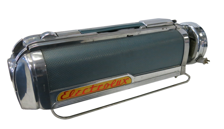 Electrolux Model LX 1952-1955 - First vacuum to use a sealed bag, first vacuum to cut off automatically when the bag is full